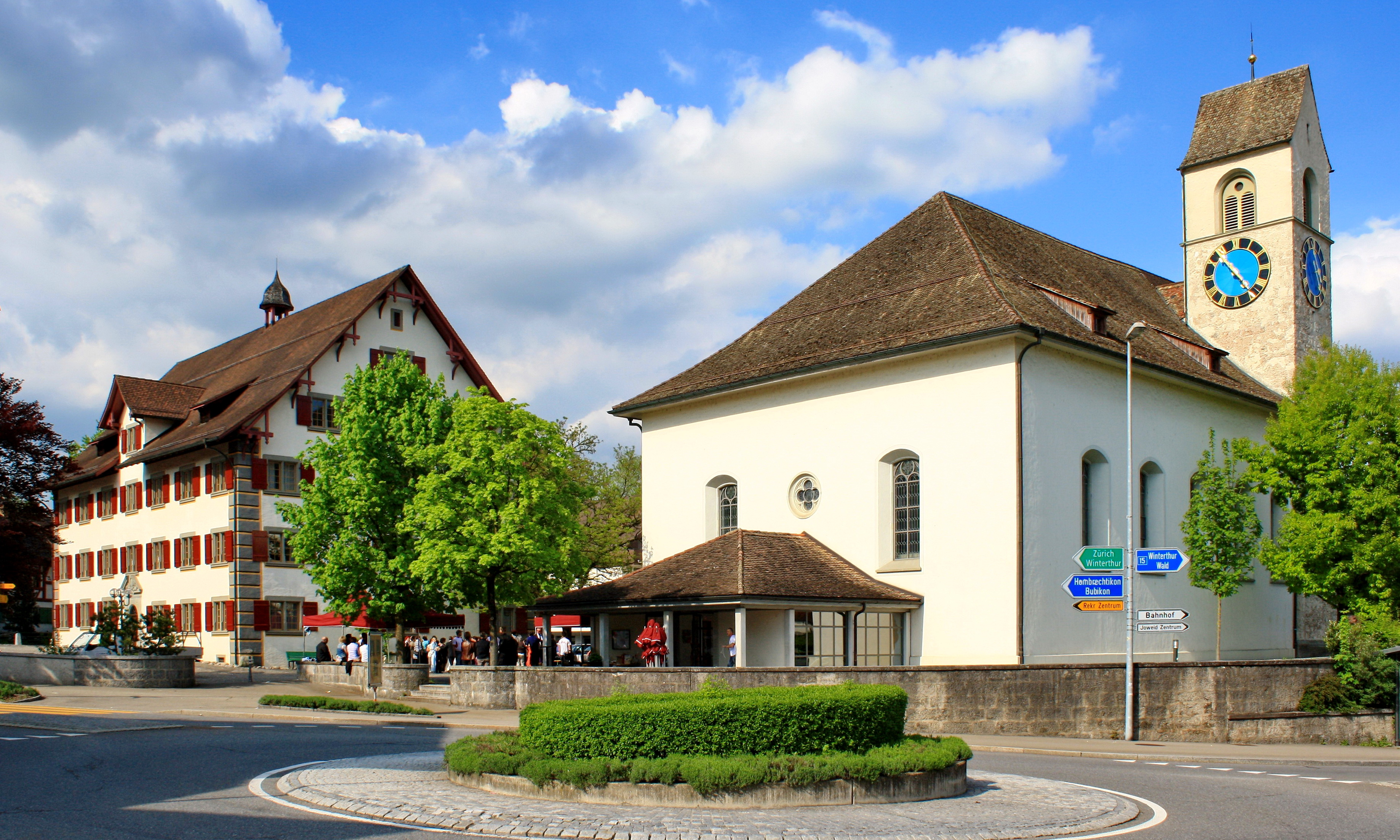 Rüti (ZH) : Former Rüti Abbey's Amthaus (Bailiff's house) now used as public library, and the Protestant church.